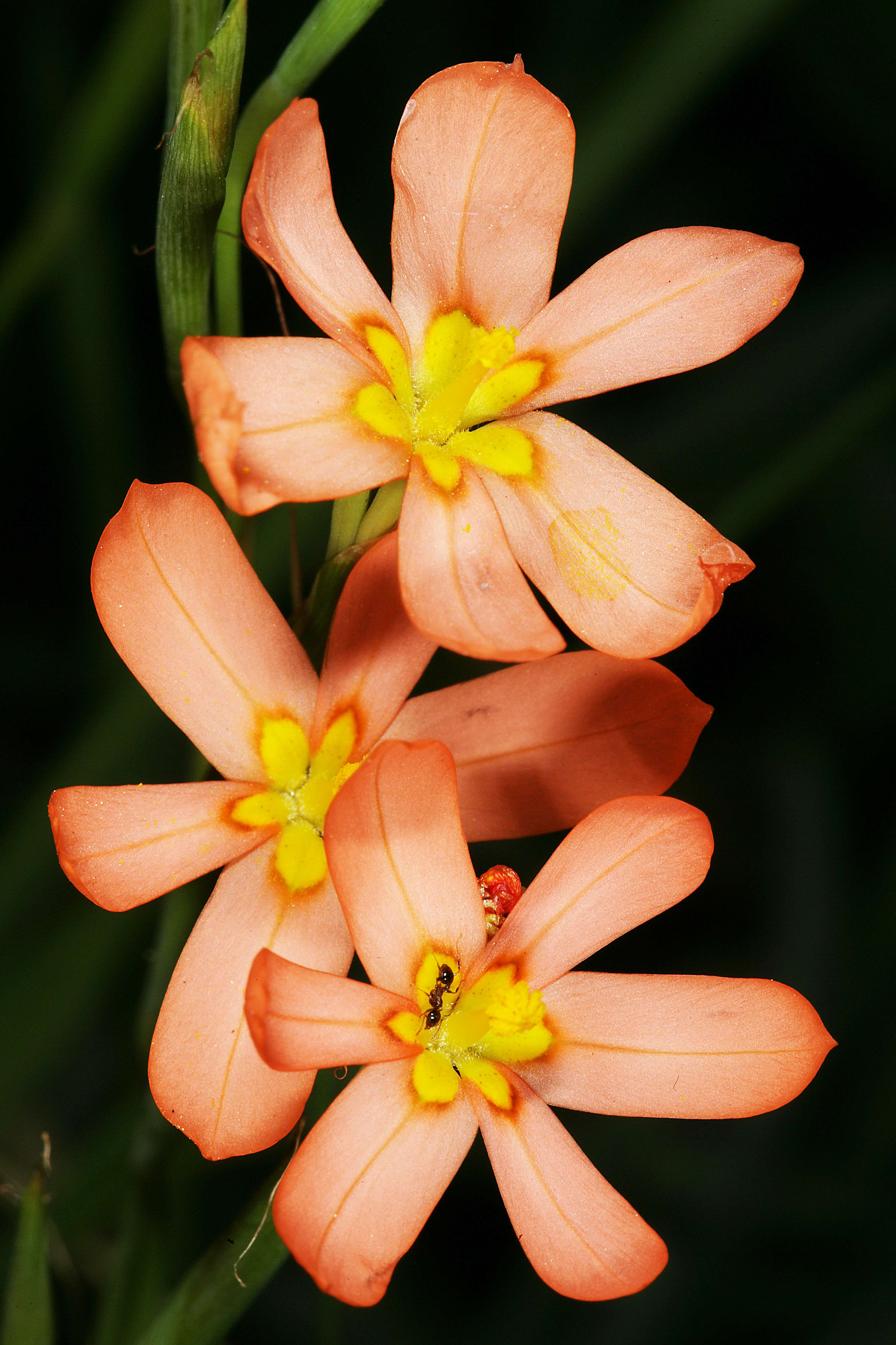 Moraea miniata, flowers; Manie van der Schijff Botanical Garden, Pretoria, Gauteng, South Africa